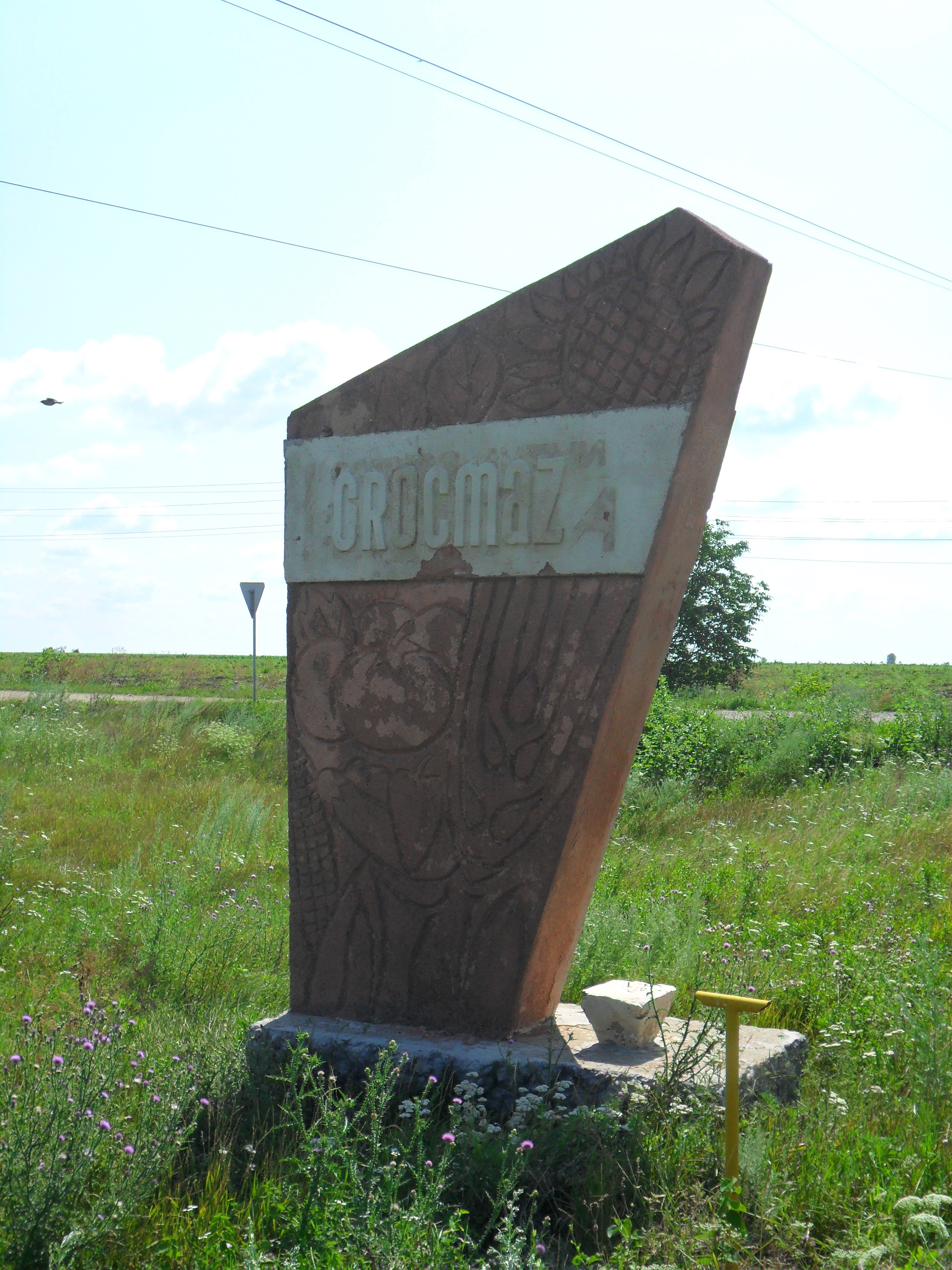 Welcome sign of Crocmaz village on road R30